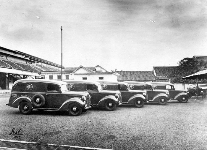 Postcars in the centre of Batavia